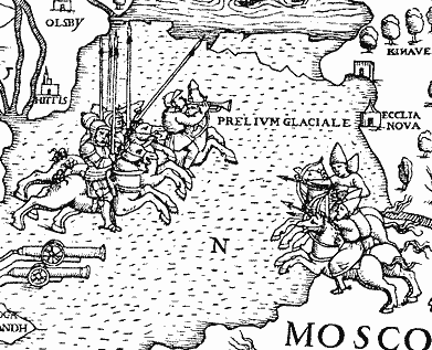 Detail of Image:Carta Marina.jpeg